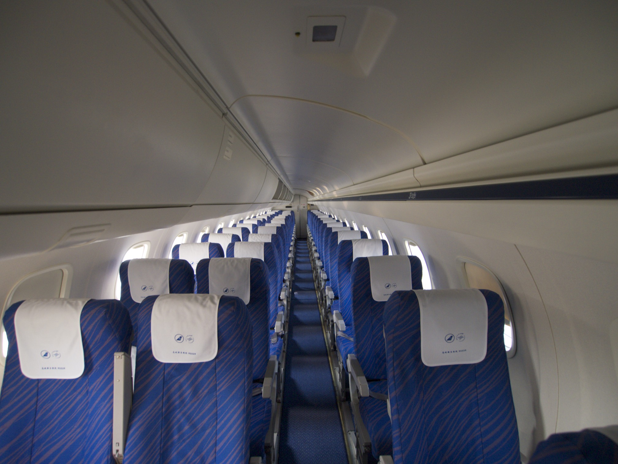 CZ342 HKG-MXZ China Southern Airlines ERJ-145 19 Mar, 2012